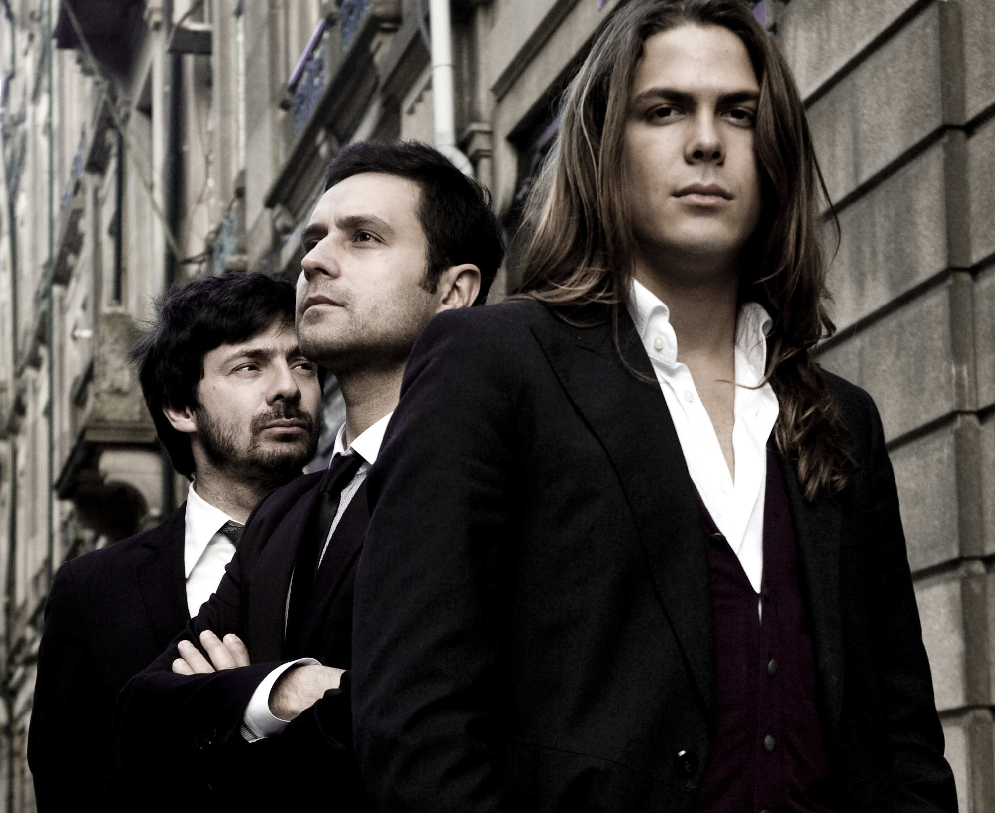 Fingertips Promo Photo.